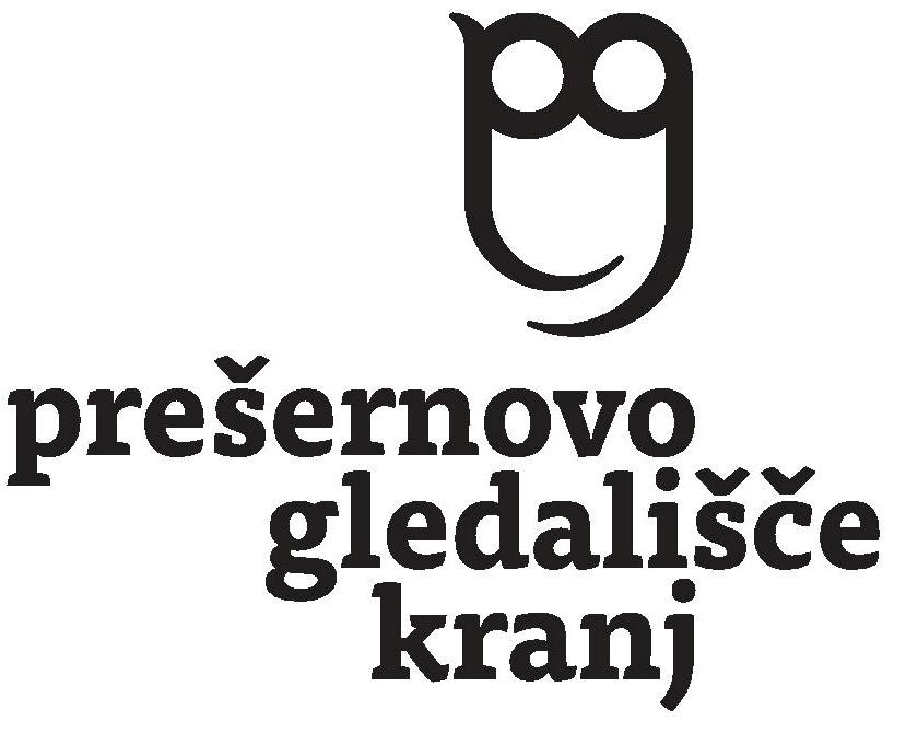 Prešernovo gledališče logotip